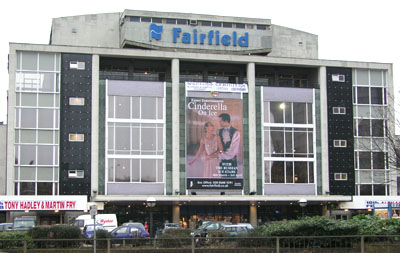 Croydon Fairfield Halls taken 5 Feb 2005